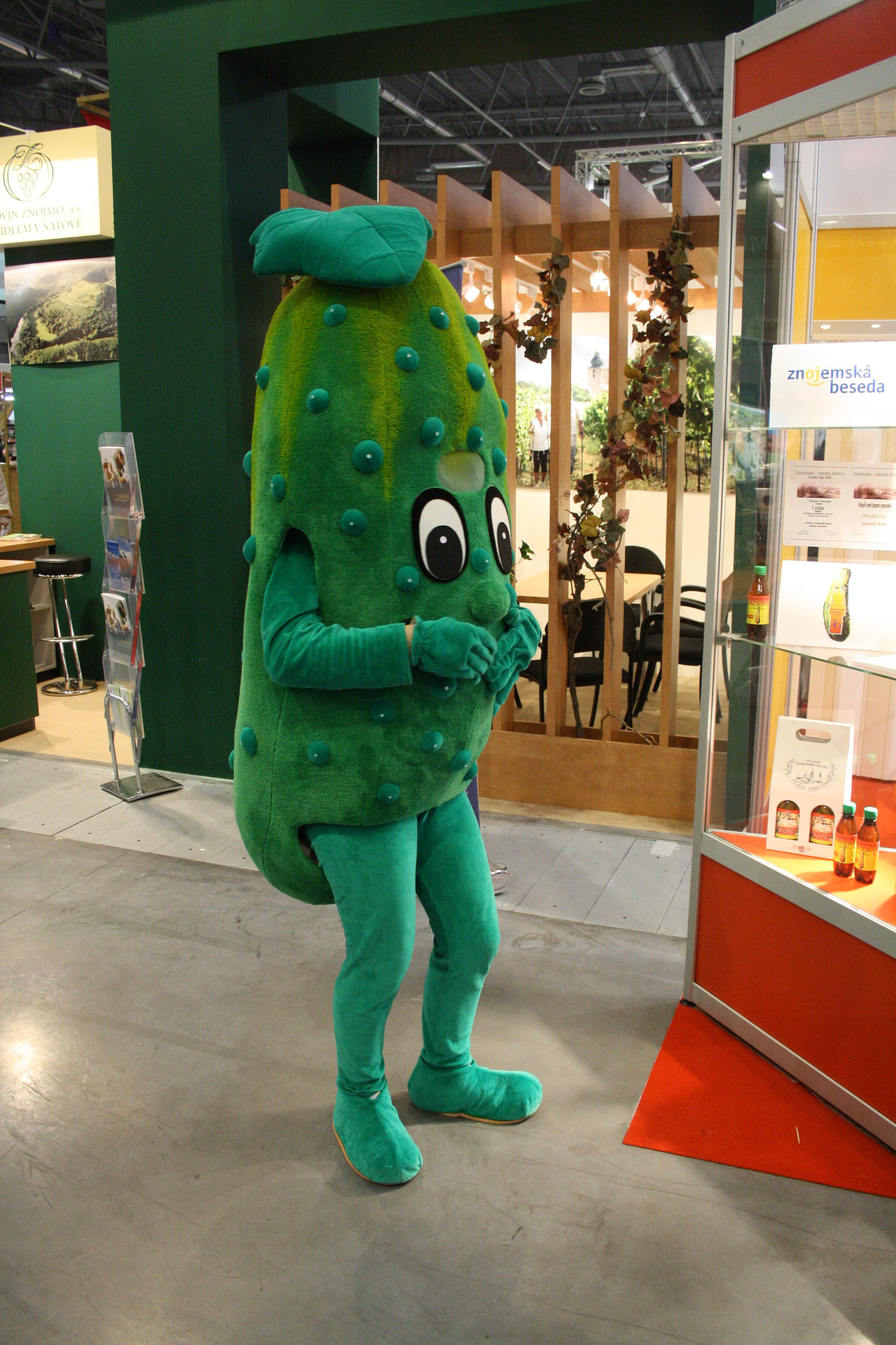 Presentation of various touristic destinations of Czech Republic.